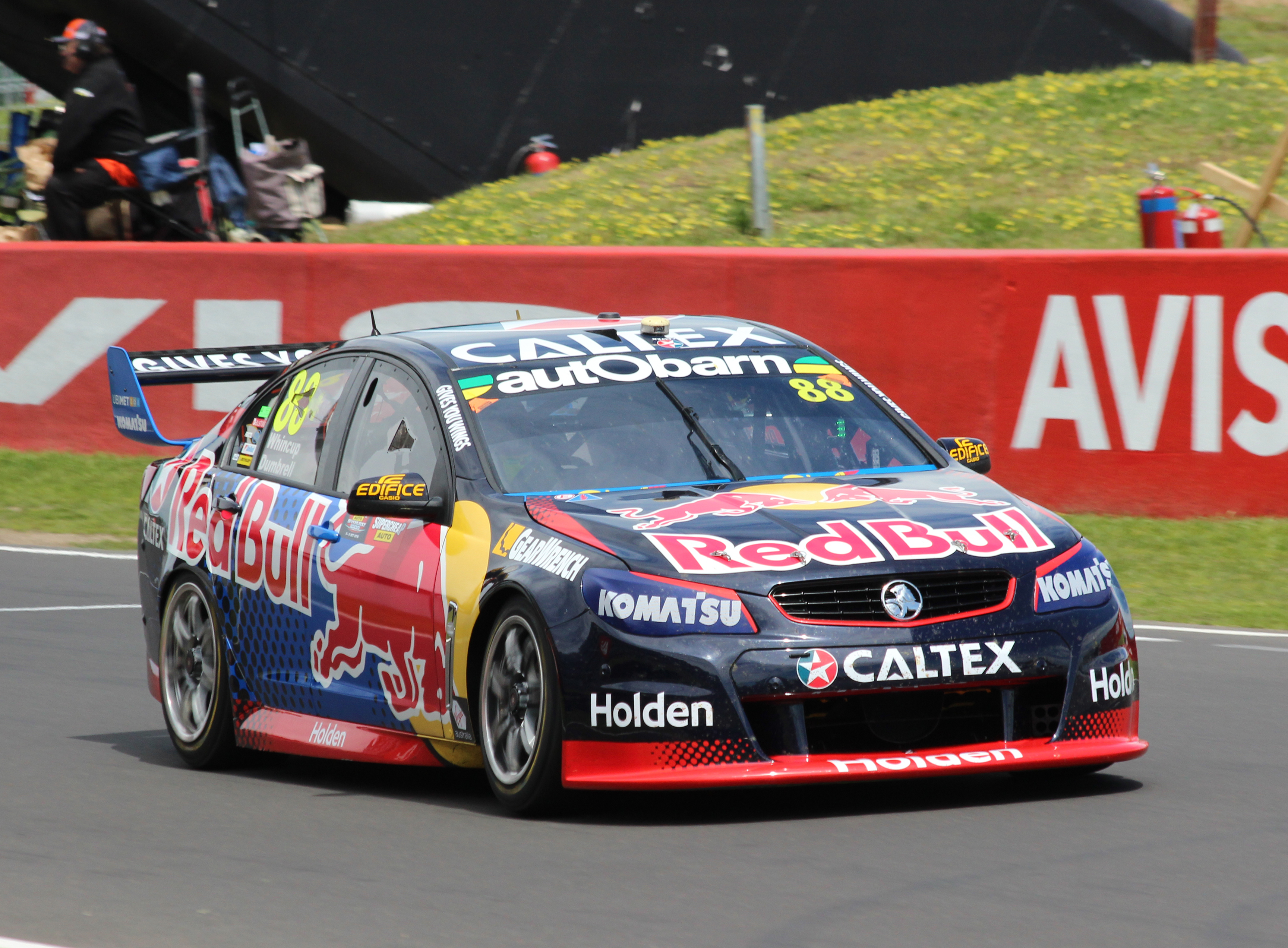 The Triple Eight Holden VF Commodore of Jamie Whincup and Paul Dumbrell during the 2016 Supercheap Auto Bathurst 1000.